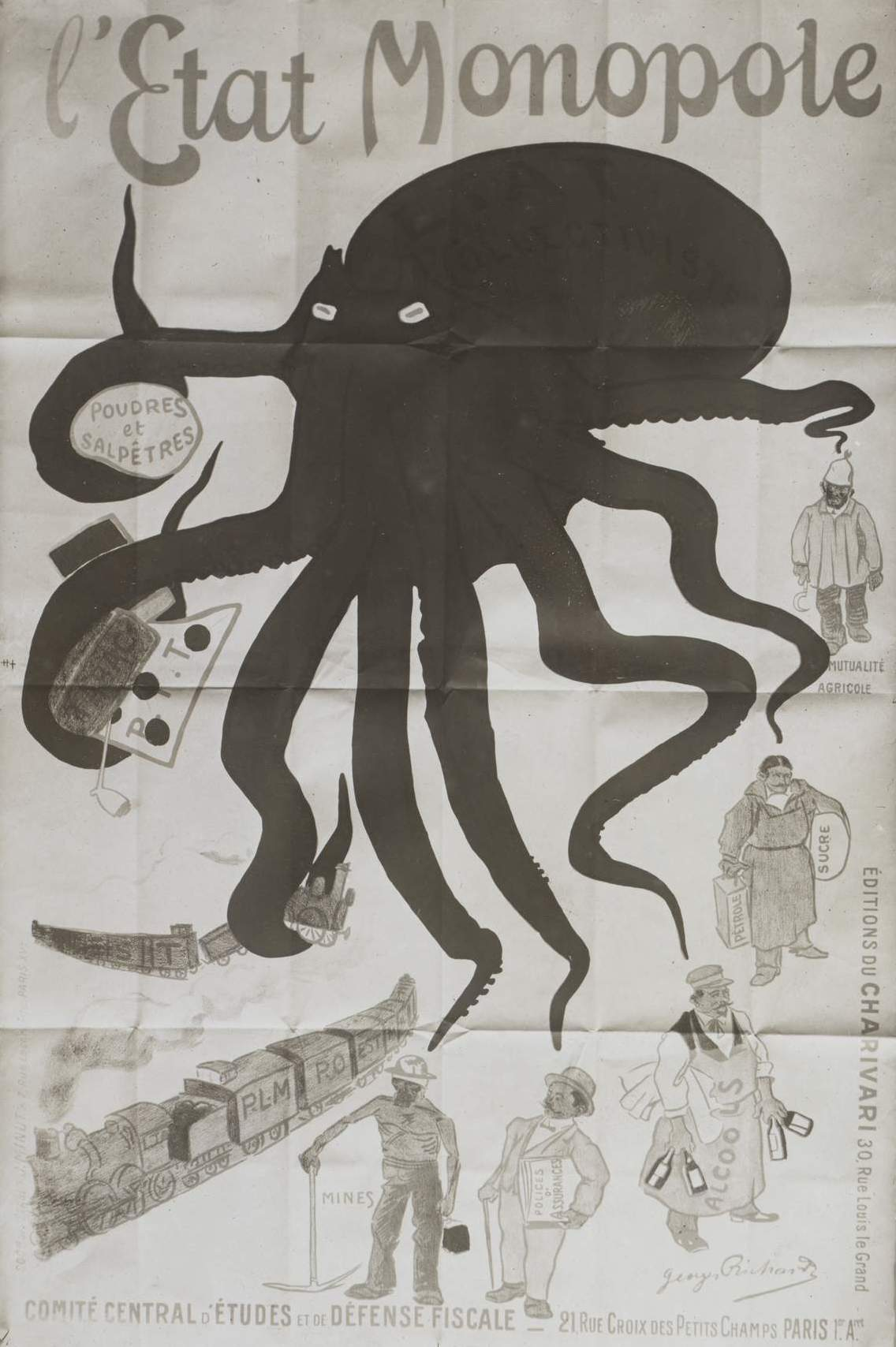 Affiche placardée sur les murs de Paris. L'état monopole.